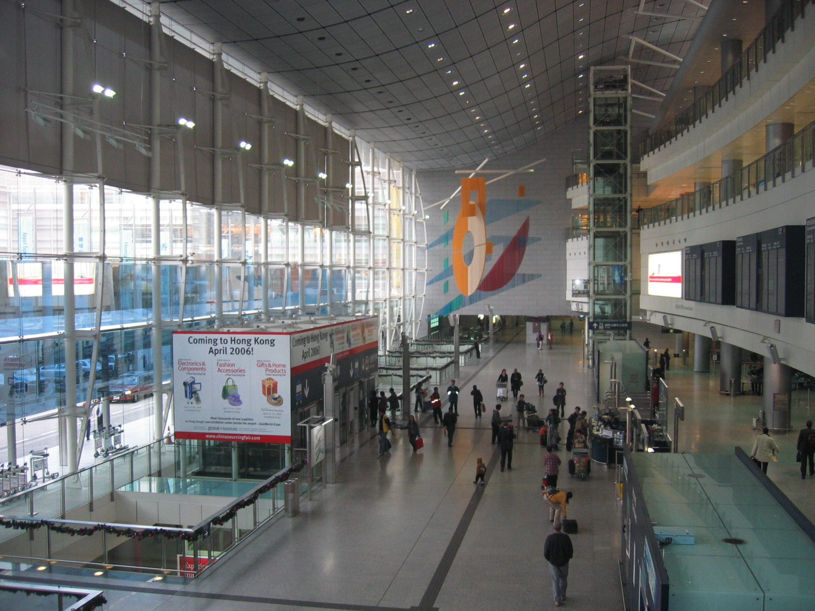 Concourse of Hong Kong MTR Station.